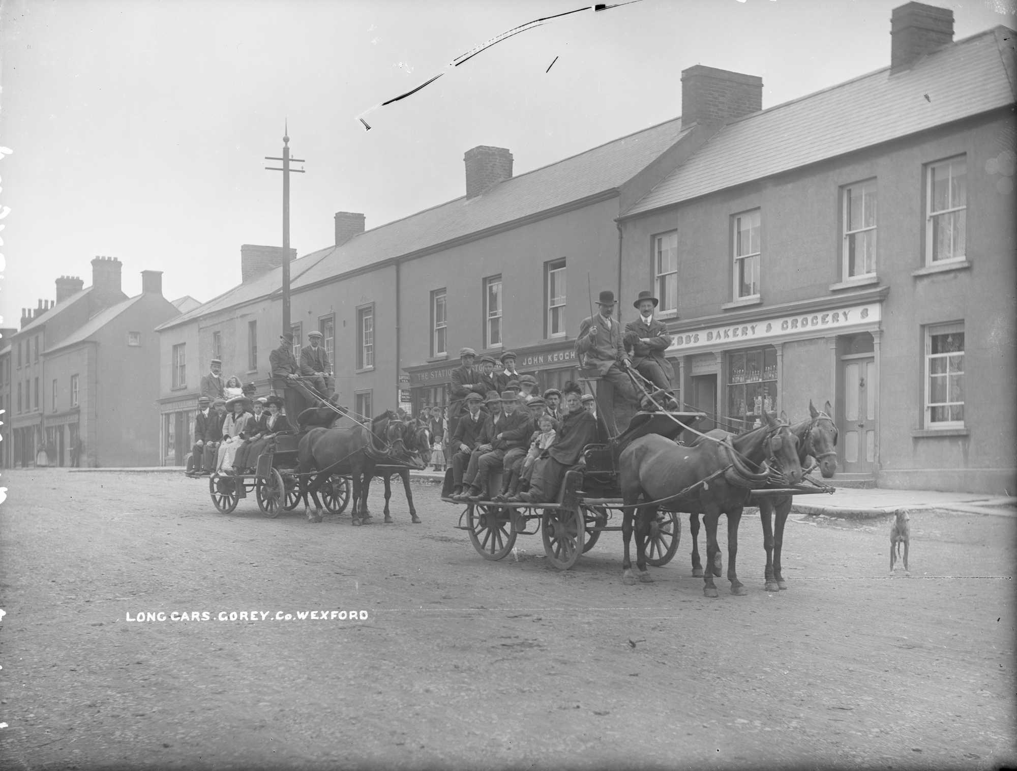 What a lovely photograph, it even has not one but two dogs!!. It seems that Long Cars are a type of early public transport (strike free perhaps?) [/photos/47297387@N03/ Carol Maddock] refers us to an advertisment in the Irish Times from 1894 which states that we are only 4 miles from sea by long cars constantly running.... There are 13 Car Drivers in the 1901 census for the area, I am presuming they drive this type of car? ONLY 2 Months and 6 Days to go............ I cant wait for the 8th July, what about you? Photographer: Robert French Collection: The Lawrence Photograph Collection Date: Circa 1900 NLI Ref: L_ROY_10655 You can also view this image, and many thousands of others, on the NLI’s catalogue at